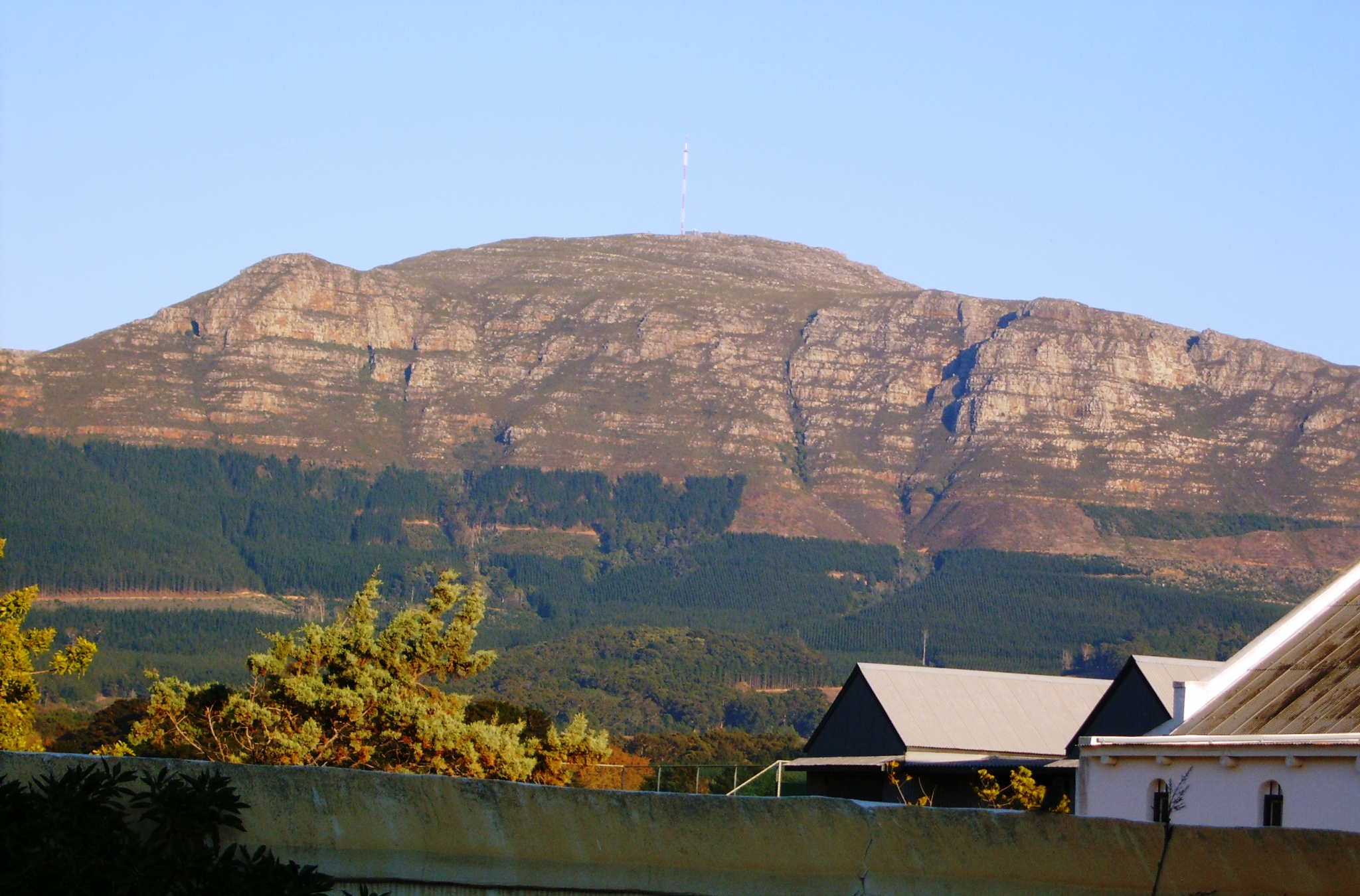 Taken from my roof on 05/05/2005